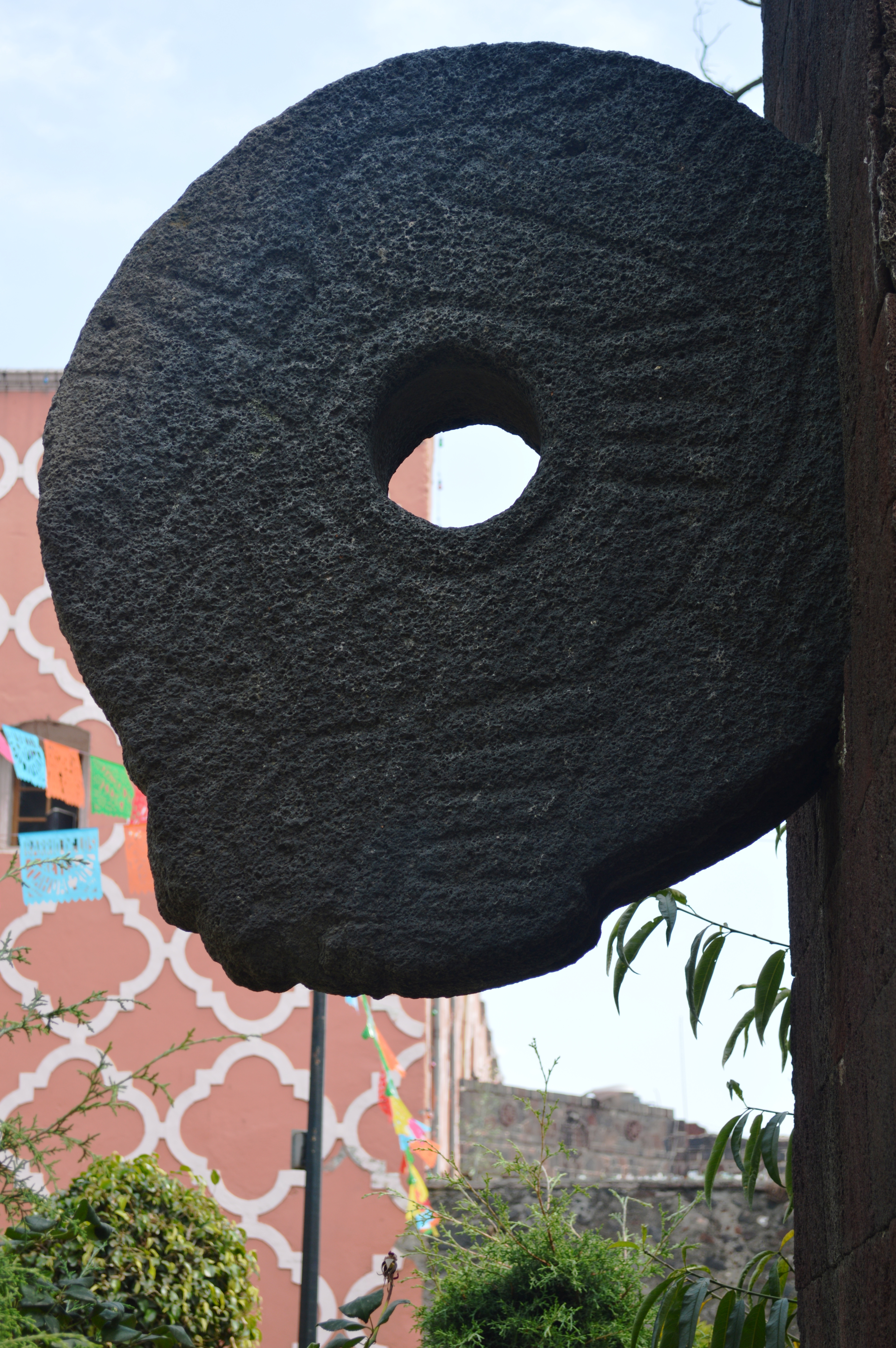 Mesoamerican ballcourt ring in the atrium of the parish of San Pedro Tlahuac in Mexico city